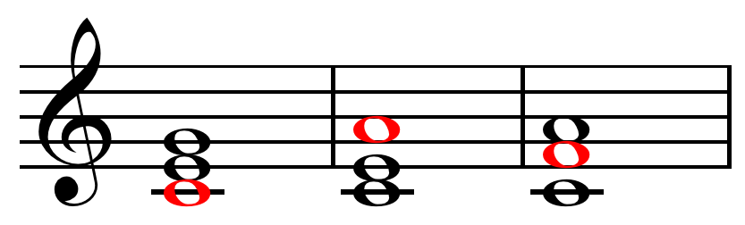 Root position, first inversion, and second inversion C major chord. Chord roots (all the same) in red.